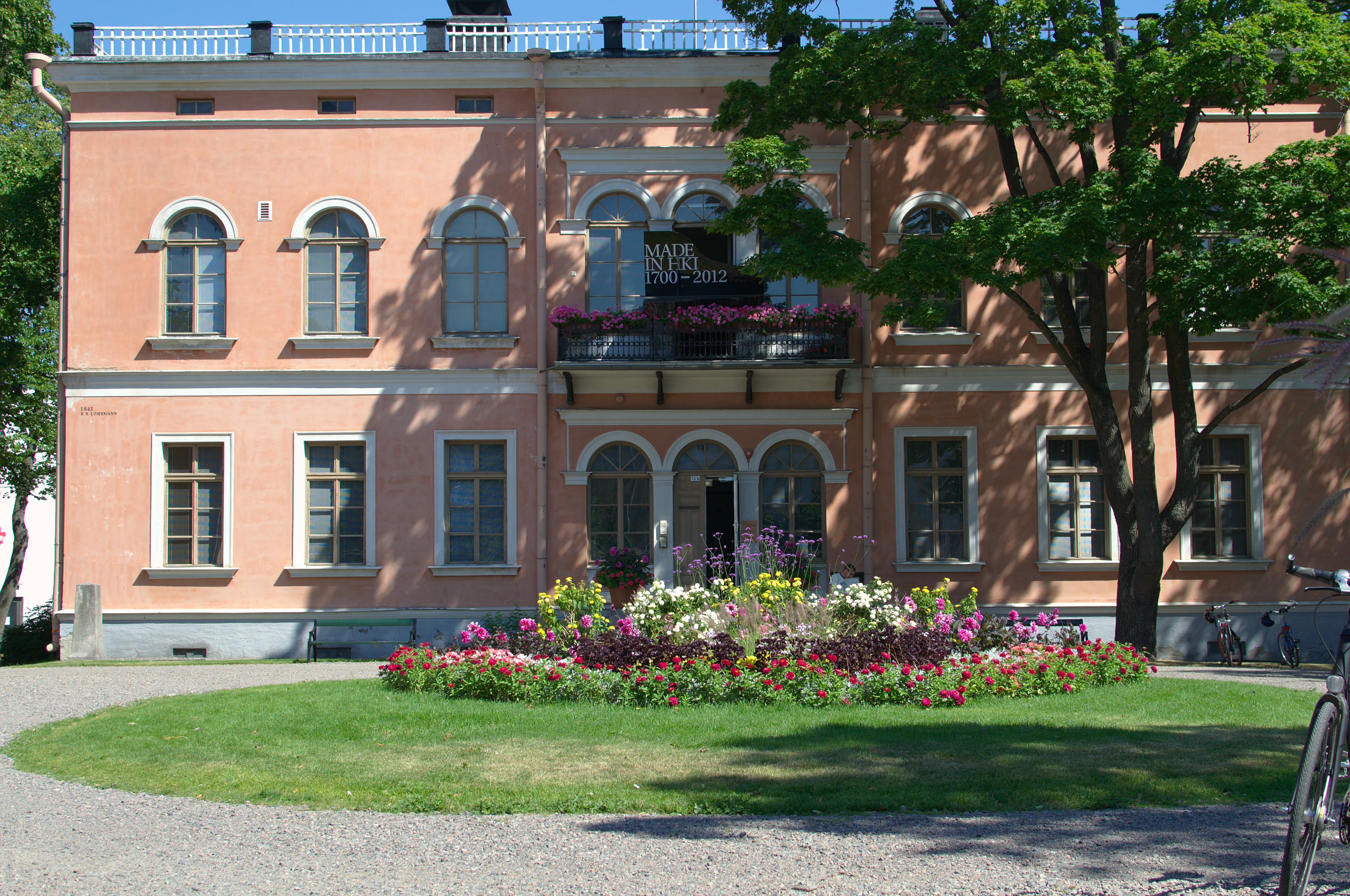 Summertime photo of Hakasalmi Villa in Helsinki, architect Ernst Bernhard Lohrmann (1803-1870)